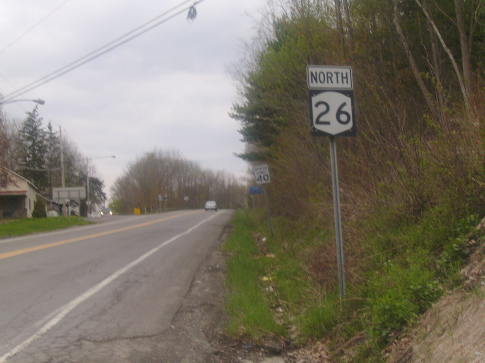 NY 26 heading northbound from Whitney Point.